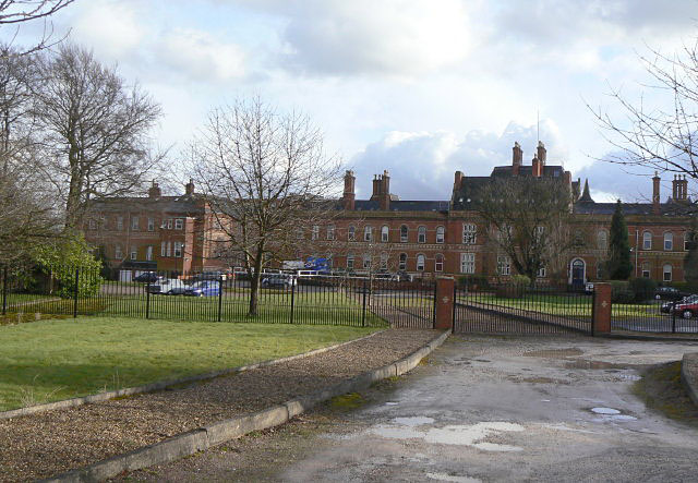 Hine Hall Built in 1857-9 as the County Lunatic Asylum, later known as Coppice Hospital. It is now converted into apartments. The name is in honour of the building's architect, T.C.Hine.